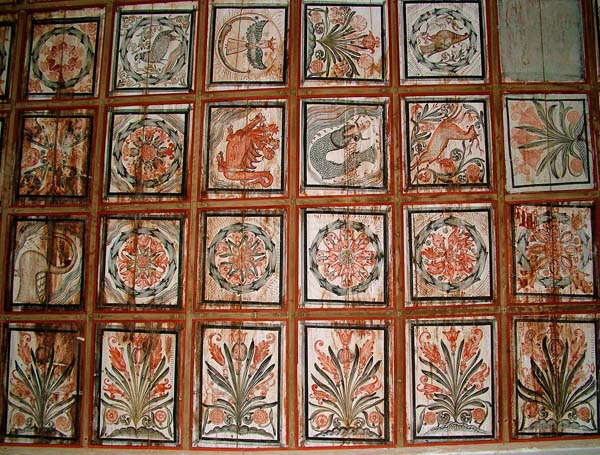 Detail from inside the church in Kraszna (Crasna, Sălaj county, Romania)